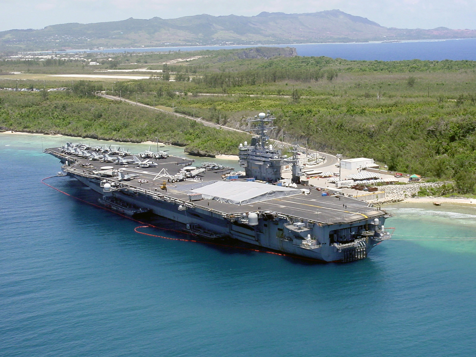 Apra Harbor, Guam (May 27, 2003) -- The aircraft carrier USS Carl Vinson (CVN 70) pier side in Apra Harbor, Guam. Vinson is resurfacing a significant portion of the flight deck through the locally contracted shipyard. The normal lifetime of the nonskid surface is 10,000 arrested landings and a normal cruise sees 9,000 to 10,000 traps. The Carl Vinson Carrier Strike Group has been extended on deployment in the Western Pacific while, Kitty Hawk is conducting scheduled maintenance at her forward-deployed operating location in Yokosuka, Japan. U.S. Navy photo. (RELEASED)